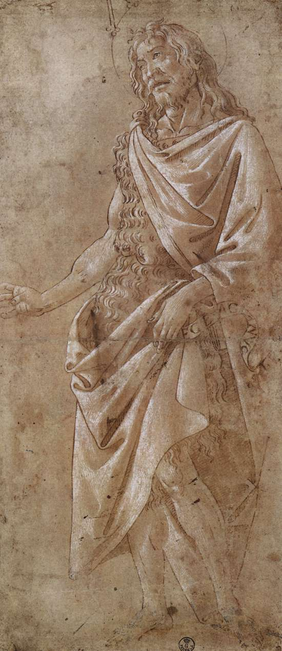 BOTTICELLI, Sandro St John the Baptist Pen with bistre on pink paper, 360 x 155 mm Galleria degli Uffizi, Florence